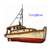 Drawing of a longliner